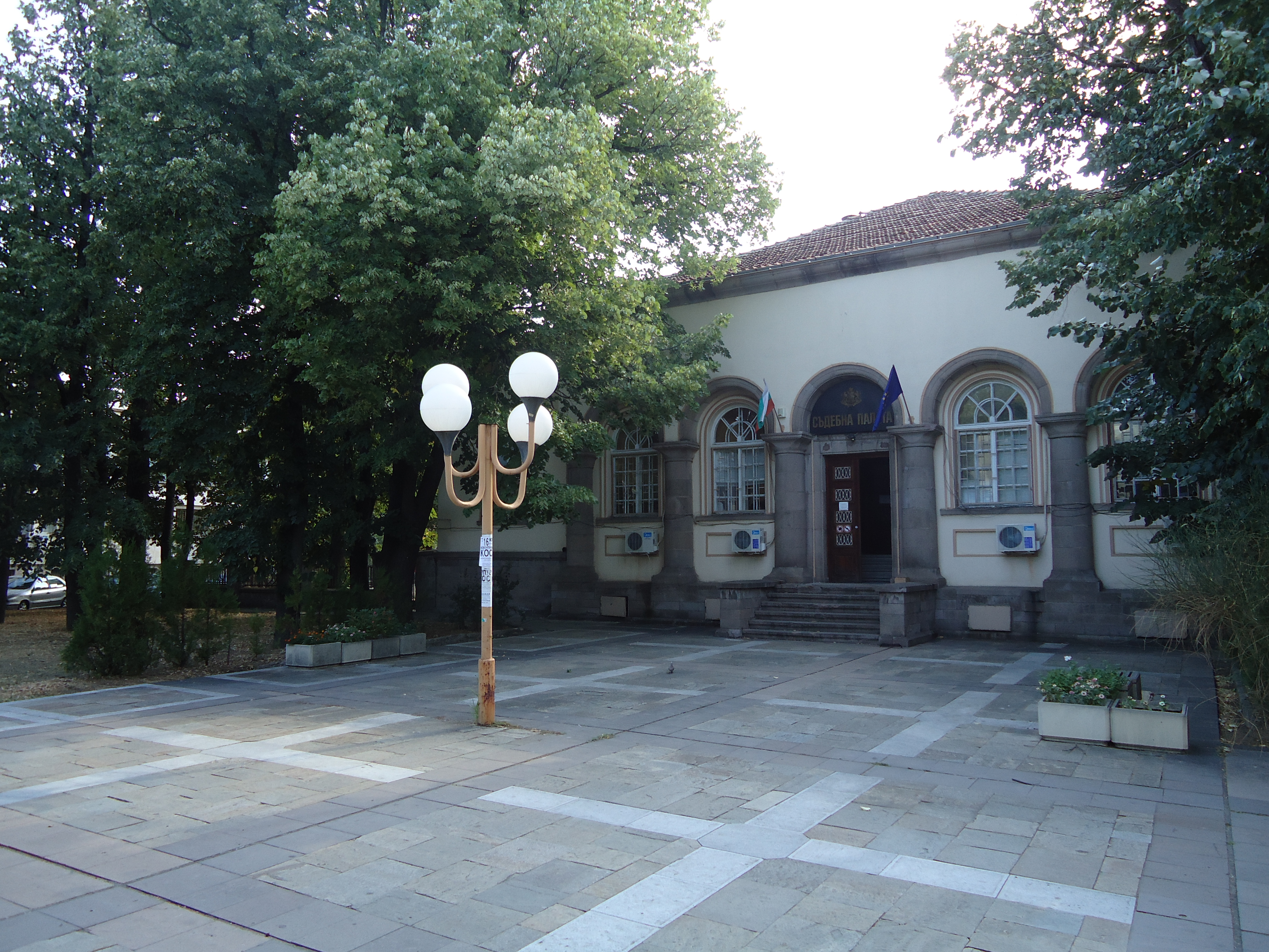 Parvomay Court House